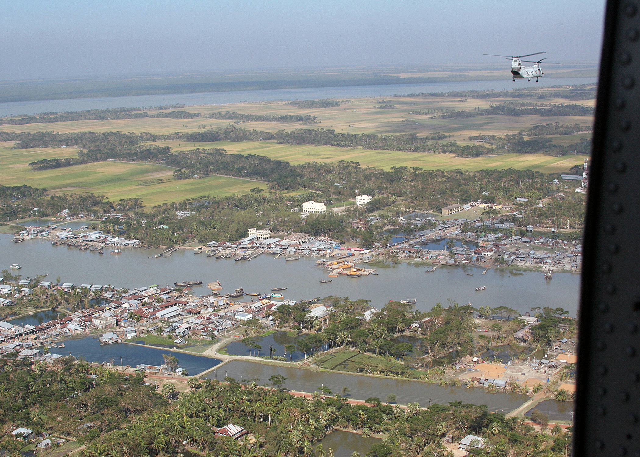 BANGLADESH (Nov. 24, 2007) An aerial view of damage to villages and infrastructure following Cyclone Sidr, which swept into southern Bangladesh Nov. 15. The amphibious assault ship USS Kearsarge (LHD 3), as well as elements of Amphibious Squadron 8 and the 22nd Marine Expeditionary Unit (MEU) Special Operations Capable (SOC) arrived off the coast of Bangladesh Nov. 23 to support ongoing disaster relief operations. U.S. Marine Corps photo by Sgt. Ezekiel R. Kitandwe (RELEASED)